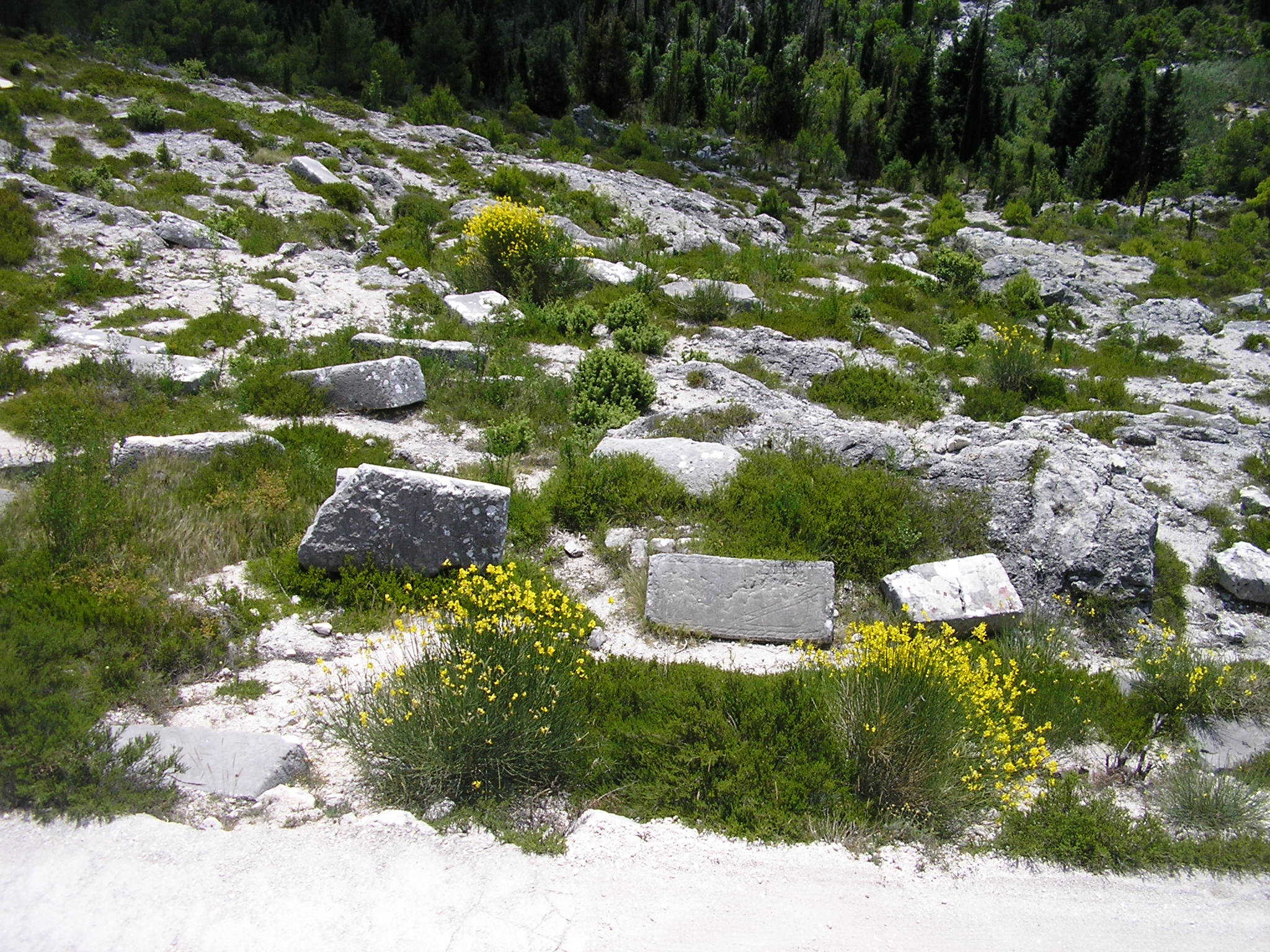 Greblje necropolis